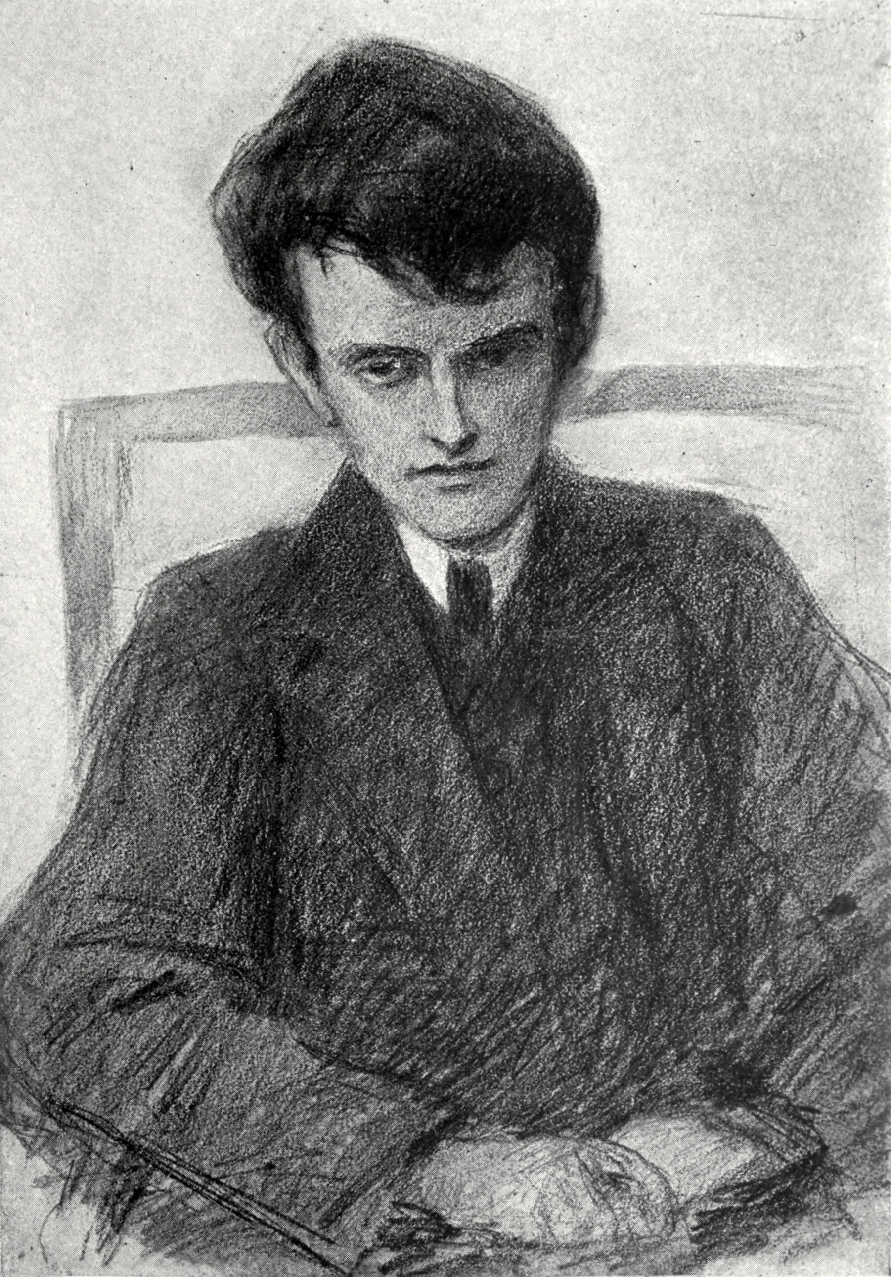 Drawing of Irish poet Padraic Colum by John Butler Yeats.